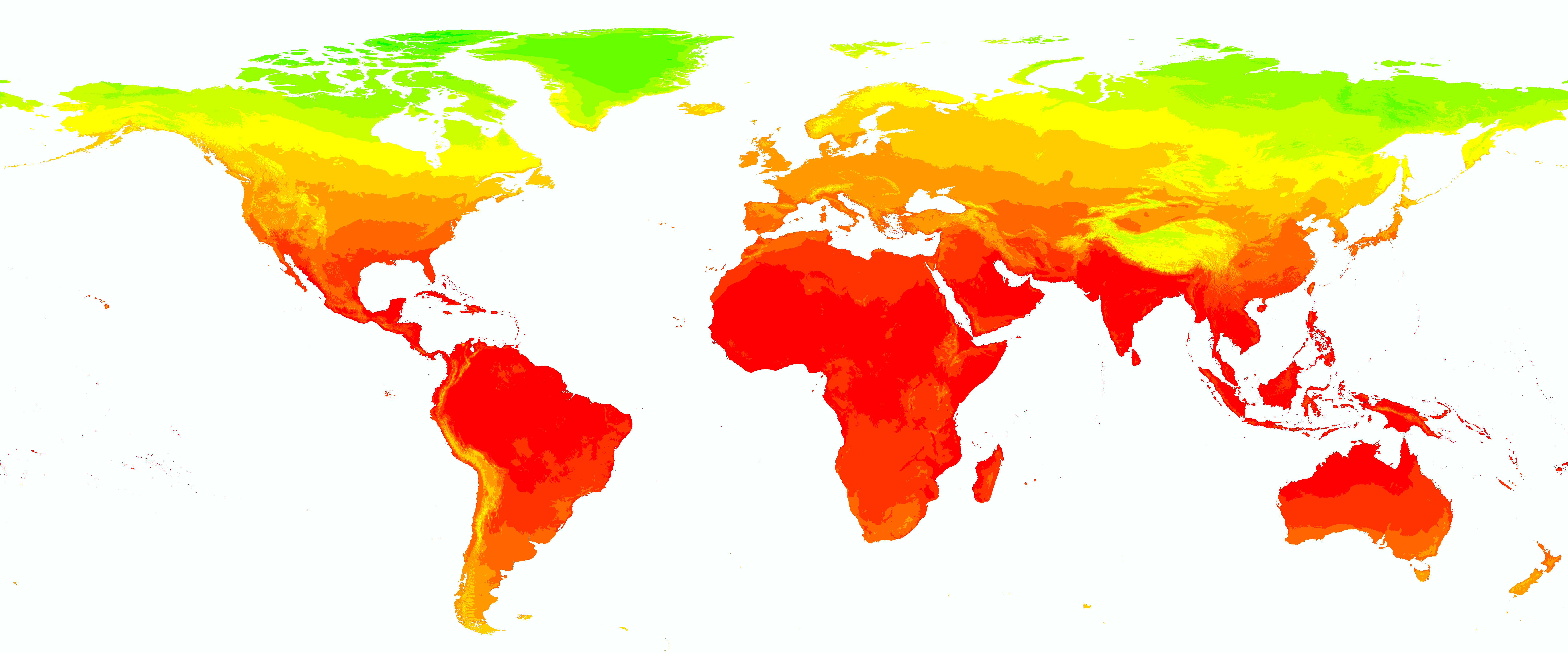 mean temperature of the world